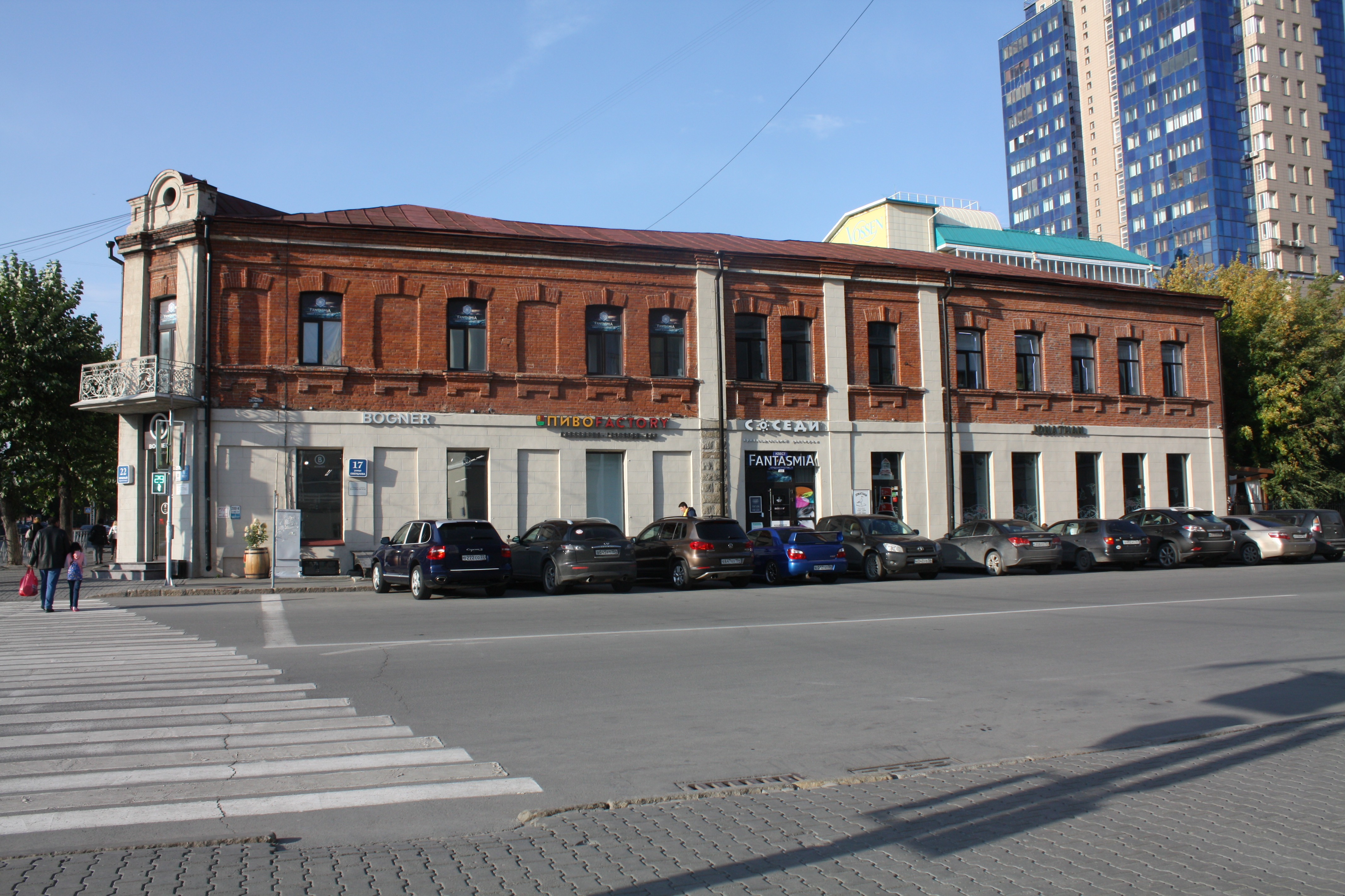 Houses of Surikov and Molchanov, Tsentralny City District, Novosibirsk.